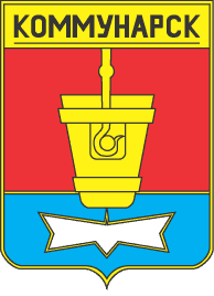 Old coat of arms of Alchevsk